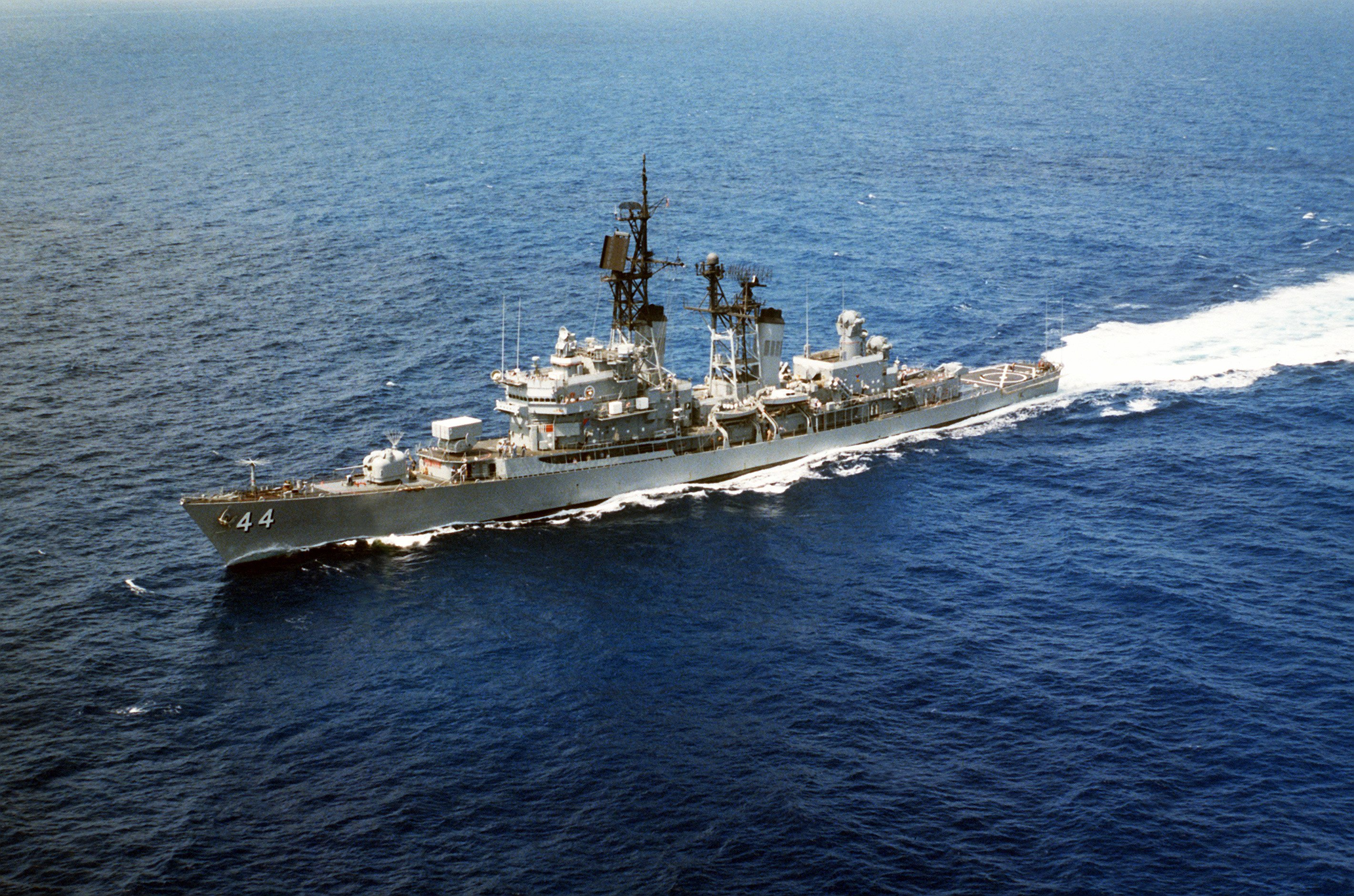 An aerial port bow view of the guided missile destroyer USS WILLIAM V. PRATT (DDG-44) underway.